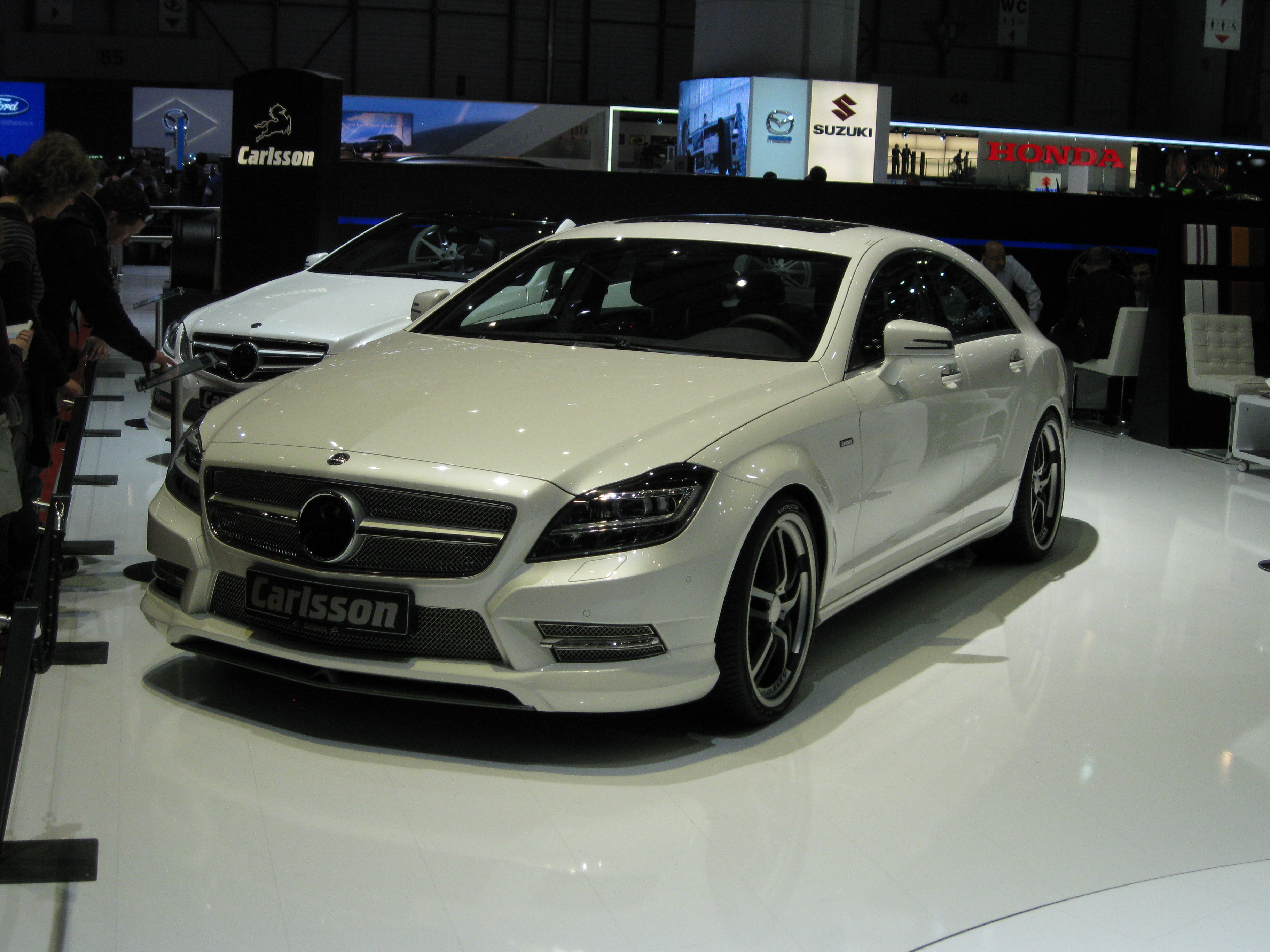 Geneva Motor Show 2011